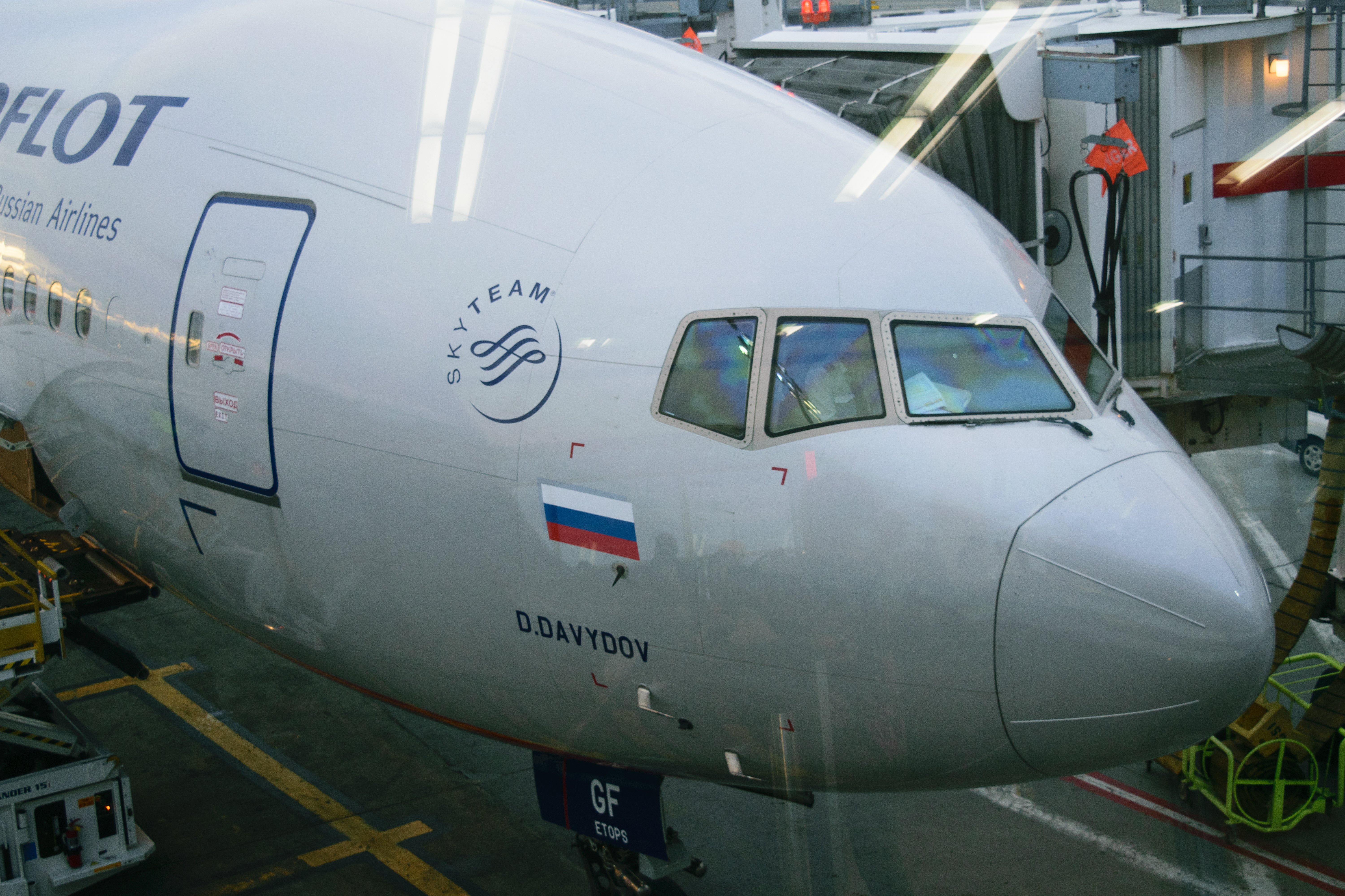 Aeroflot's Boeing 777-300ER named D. Davydov with registration VP-BGF at John F. Kennedy International Airport. The aircraft is on service for non-stop flight SU103 to Sheremetyevo International Airport in Moscow.